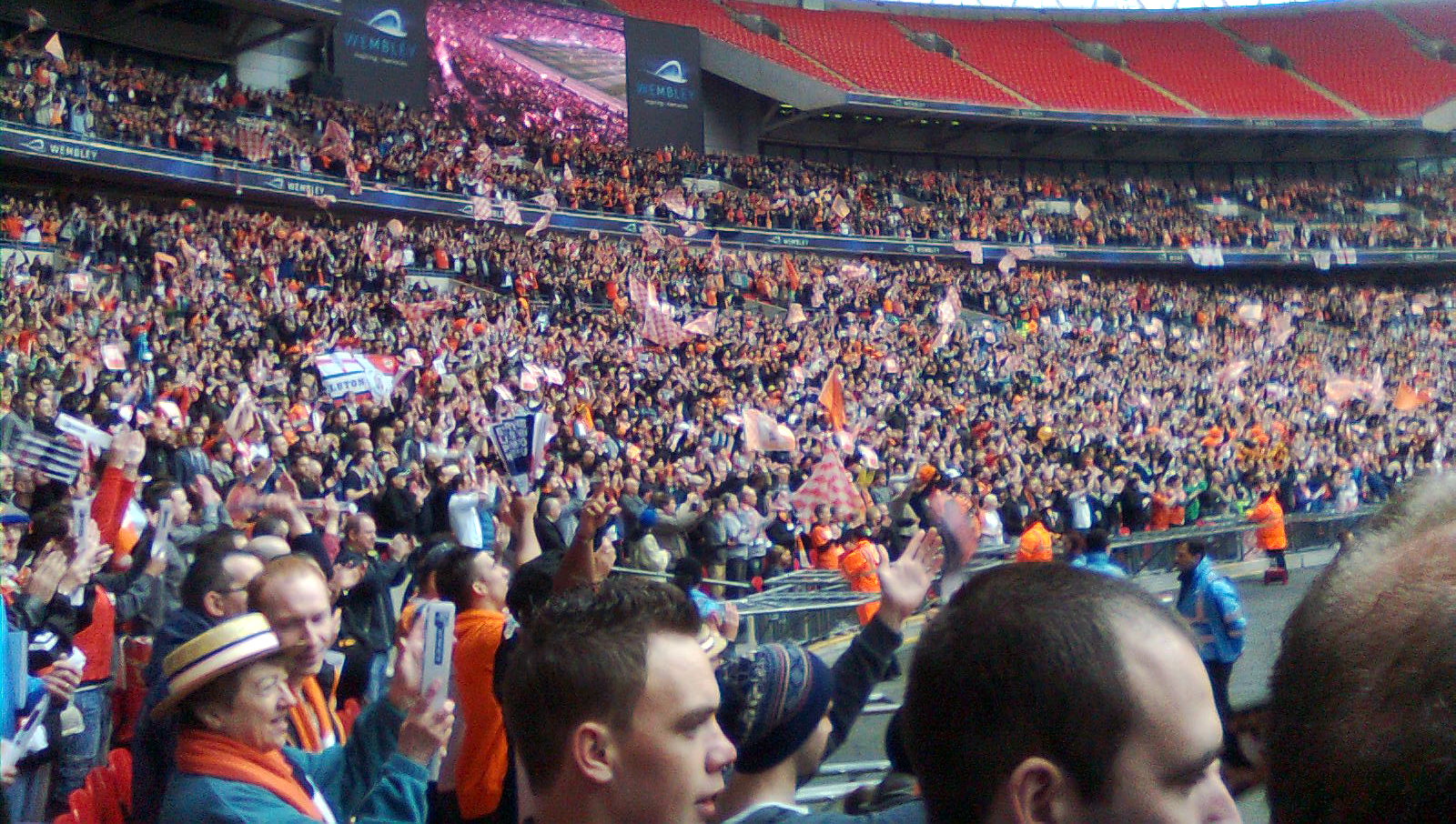 Luton Town supporters at Wembley Stadium on 20 May 2012 for the Football Conference play-off final against York City